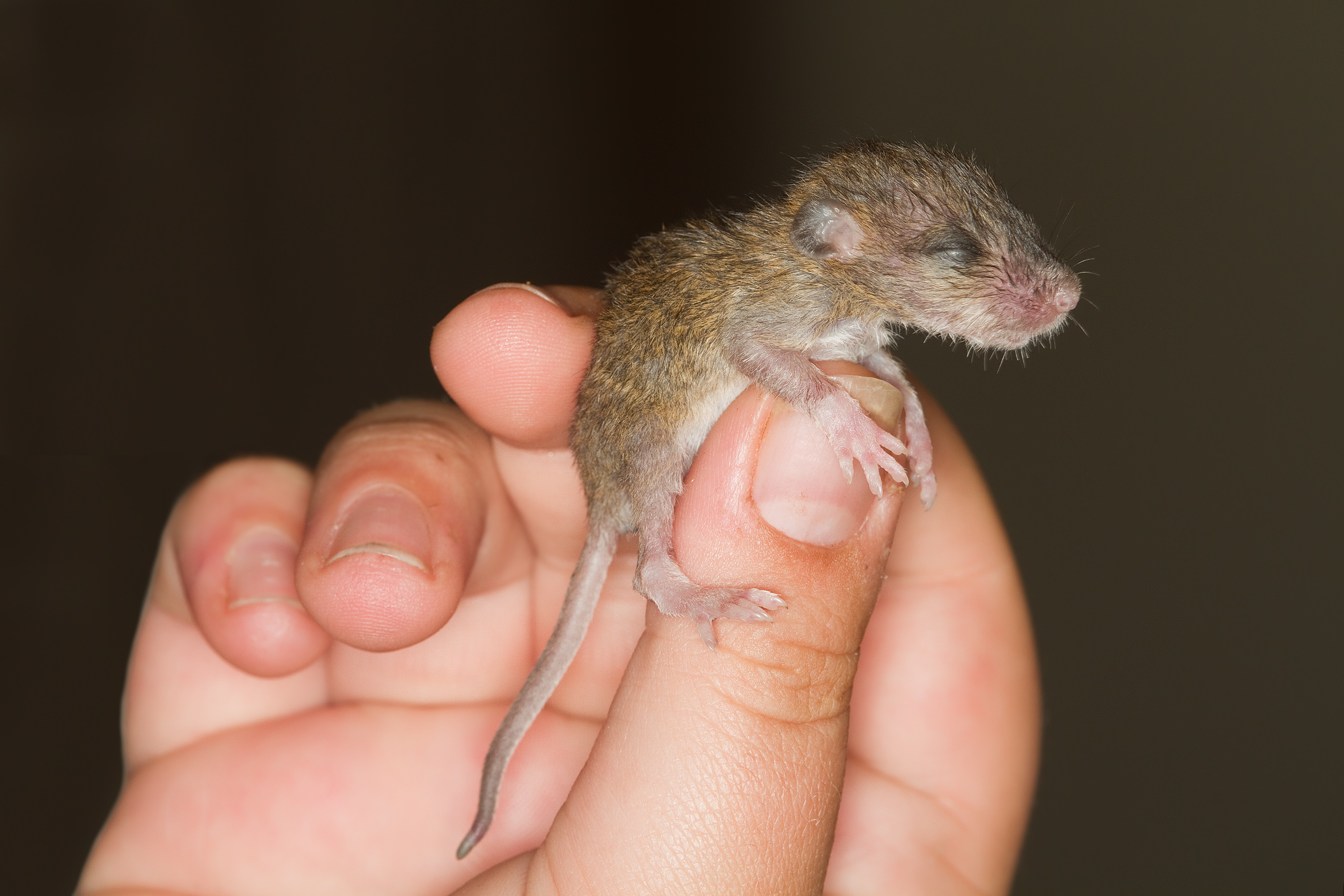 Orphan Rakali (Hydromys chrysogaster), Austin's Ferry, Tasmania, Australia